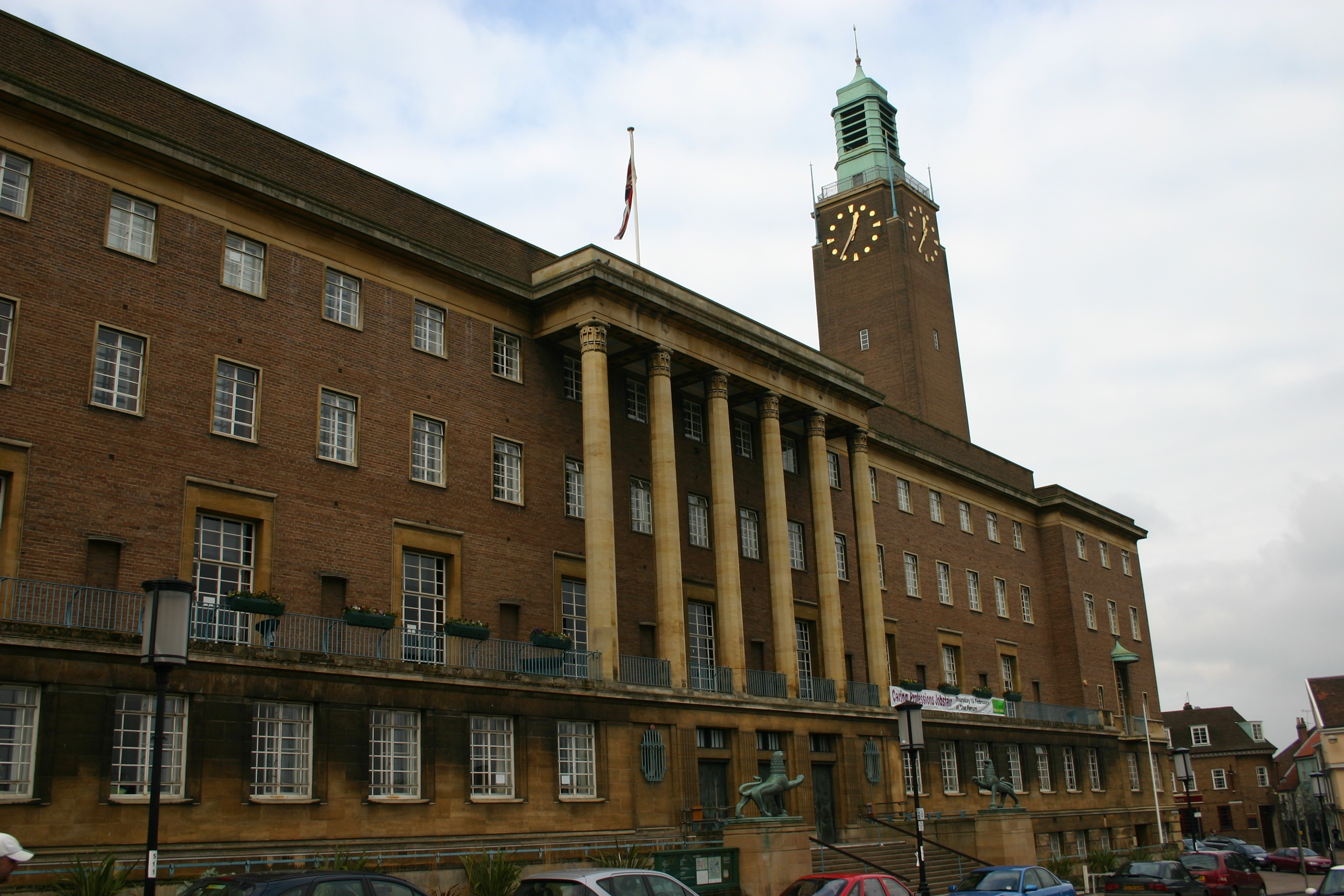 City Council Building of Norwich (England)